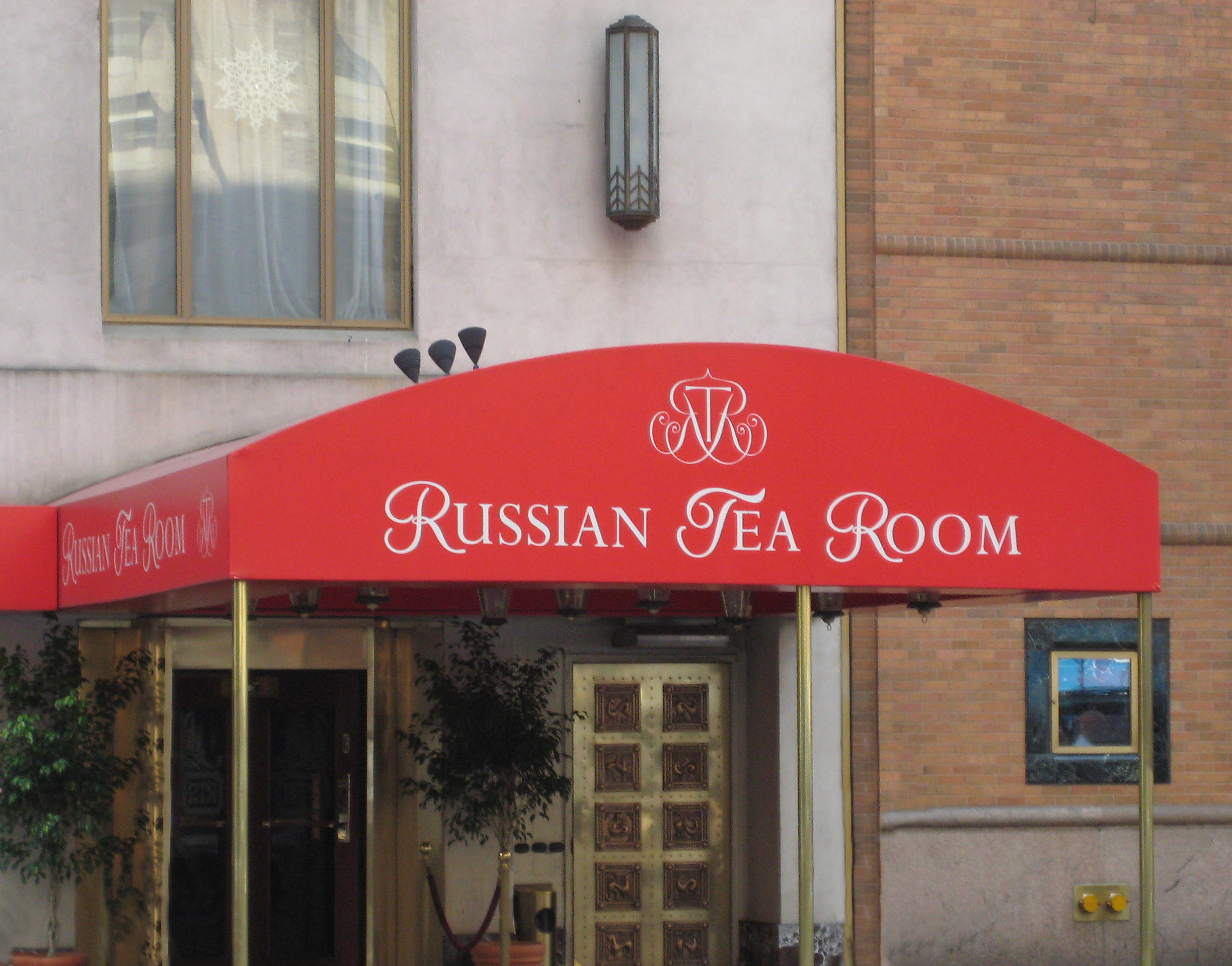 Russian Tea Room in New York, NY